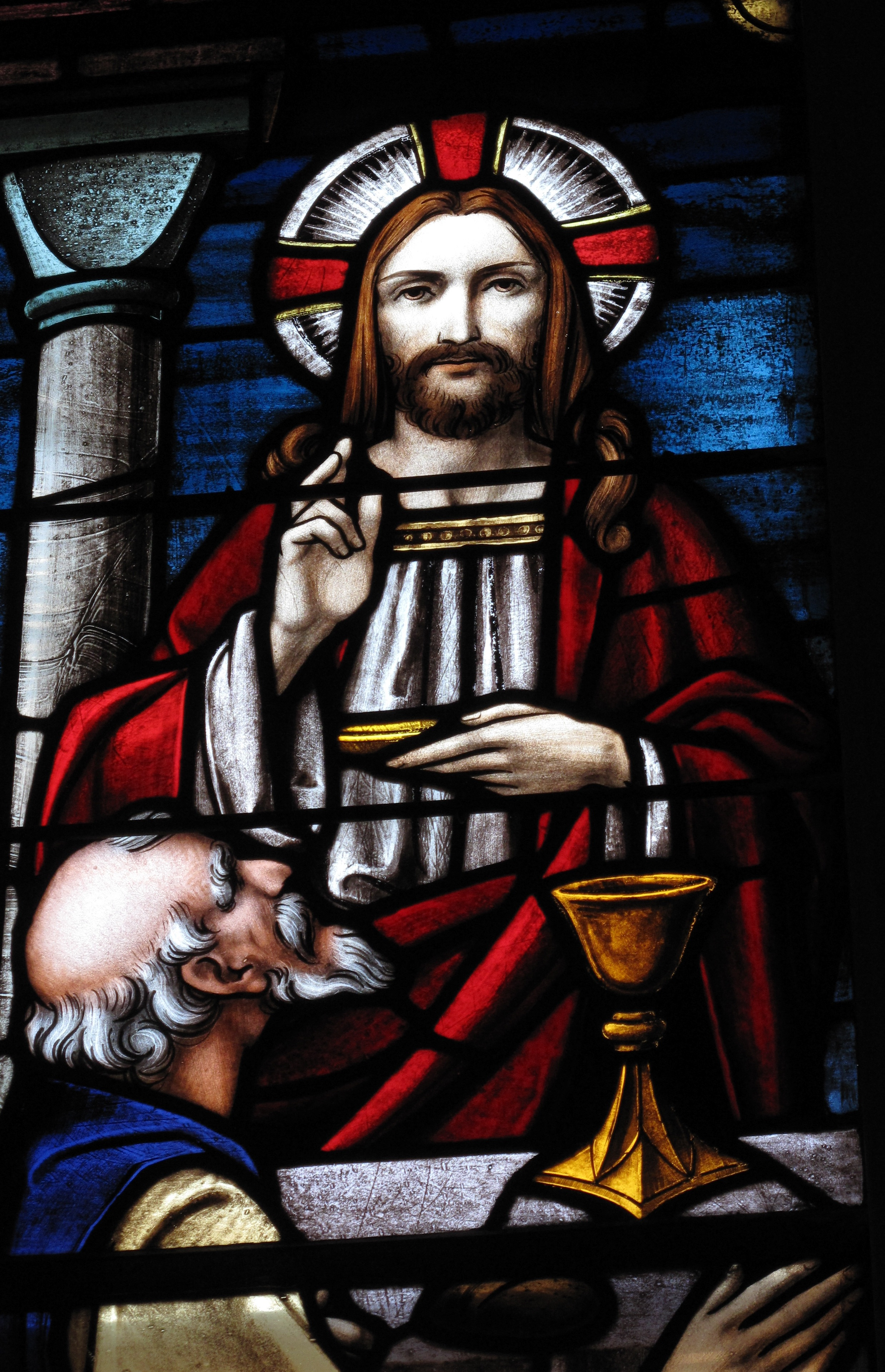 Detail of the Holy Communion window at St. Matthew's Lutheran Church. The window was designed in 1966 by Franz Mayer & Co. of Munich, Germany and installed by the studios of George L. Payne of Patterson, New Jersey.